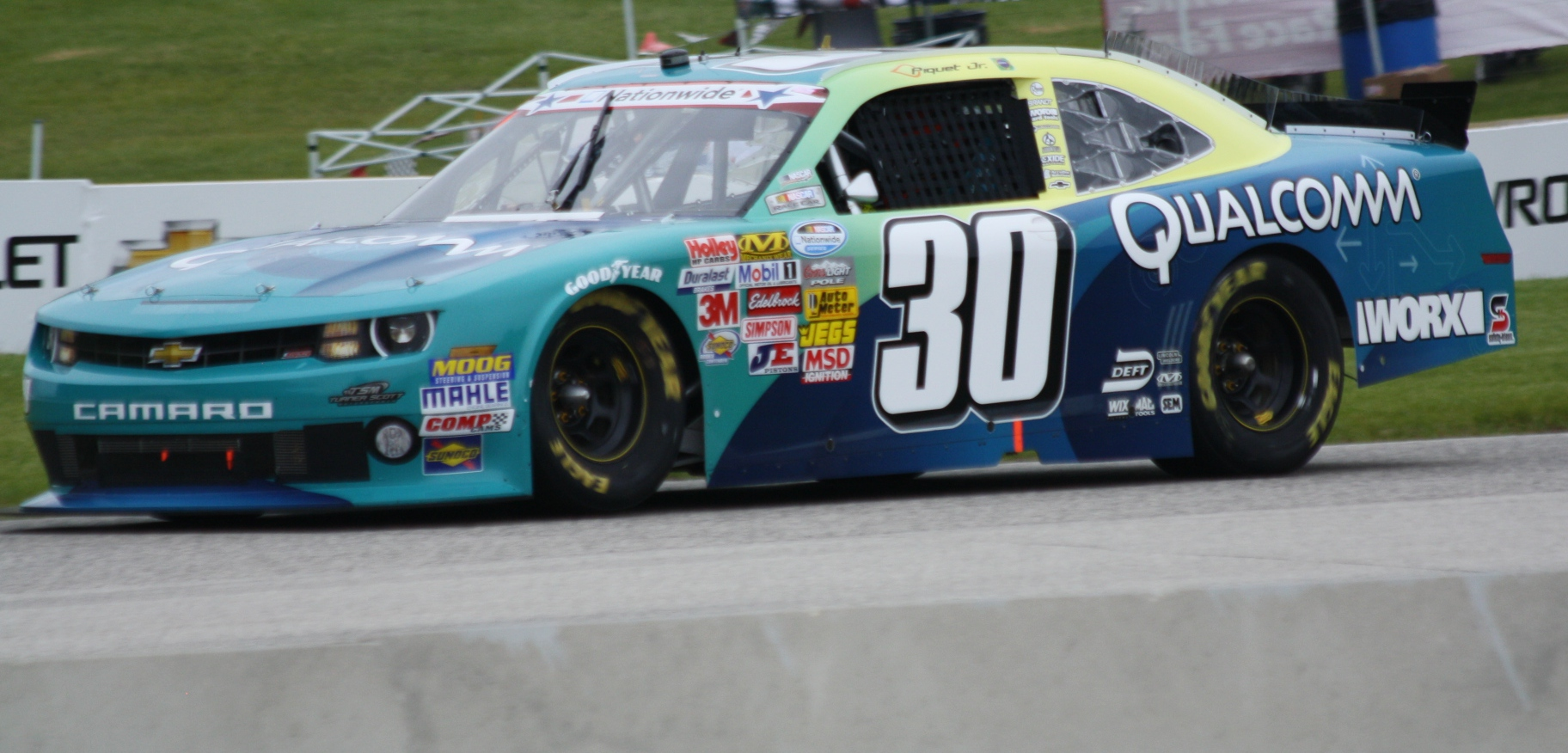 The NASCAR Nationwide car of Nelson Piquet, Jr. during the w:2013 Johnsonville Sausage 200 at Road America.